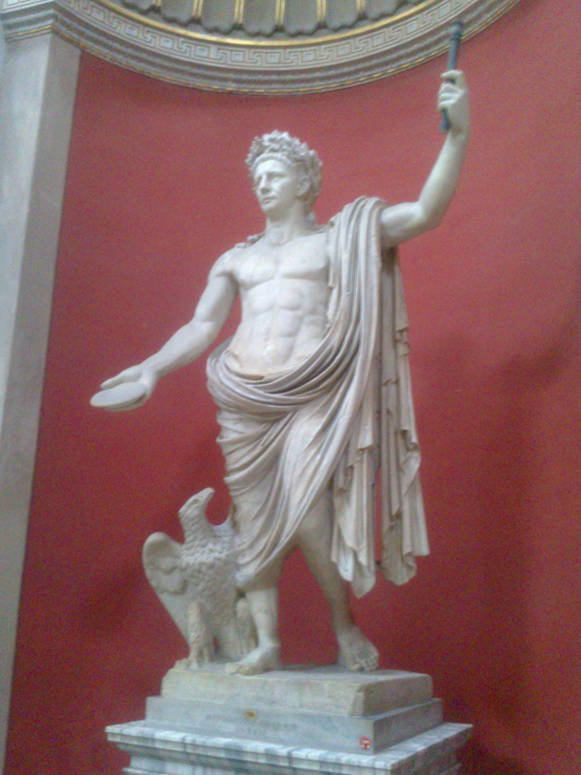 Statue of emperor Claudius as Jupiter. (Vatican Museums)